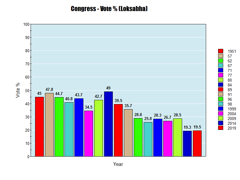 data upload karna acha kaam hai